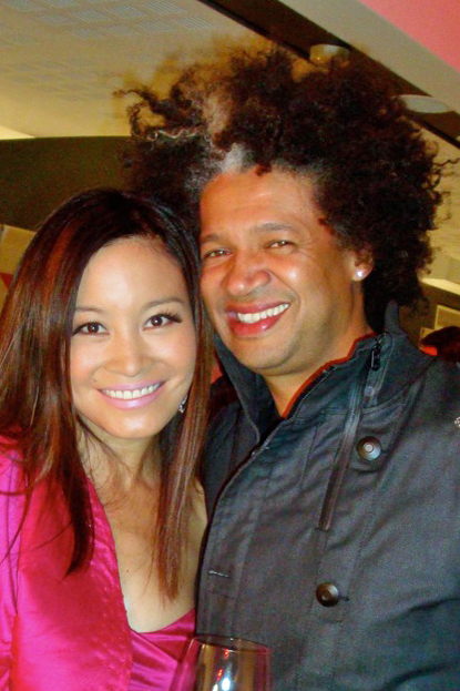 Jen Su with SA comedian Marc Lottering